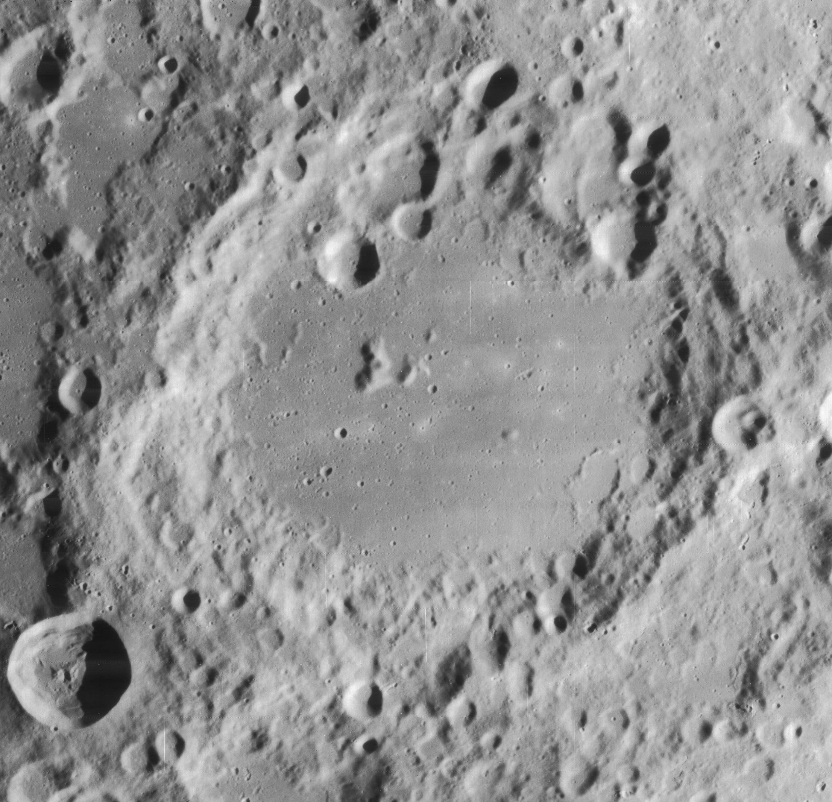 Longomontanus, on the moon. North is to upper right.